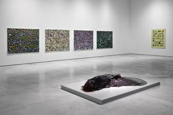 collection